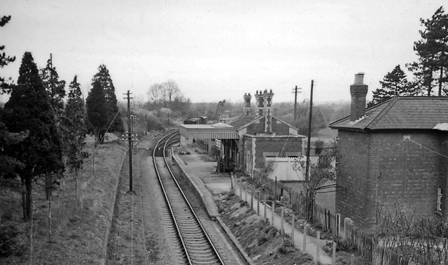 Barbers Bridge Station, Near to Rudford, Gloucestershire, Great Britain. View NW from B4215 bridge, towards Dymock and Ledbury. This remarkably intact station had been closed since 13/7/59 to passengers, when the Gloucester - Ledbury branch line service was withdrawn, but Goods continued Gloucester - Dymock until 1/6/64.